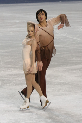 Maria Mukhortova and Maxim Trankov at the 2010 European Figure Skating Championships.